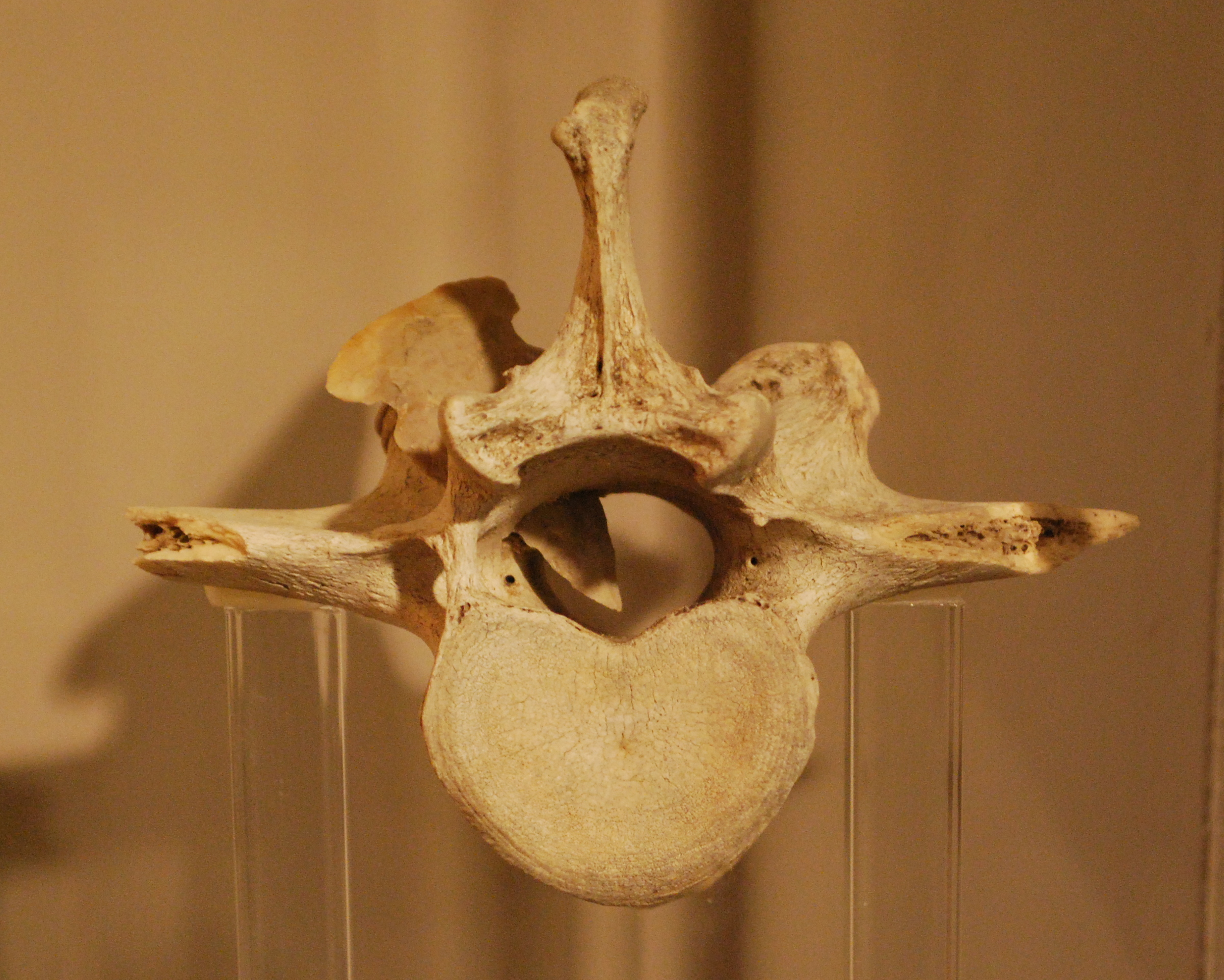 Giant Bison (Bison latifrons) Vertebra with Atlatl Point on exhibit at the Maidu Interpretive Center. Cherokee, Oklahoma 4,000 - 3,500 B.C. Donated by James M. Royer of Roseville, CA